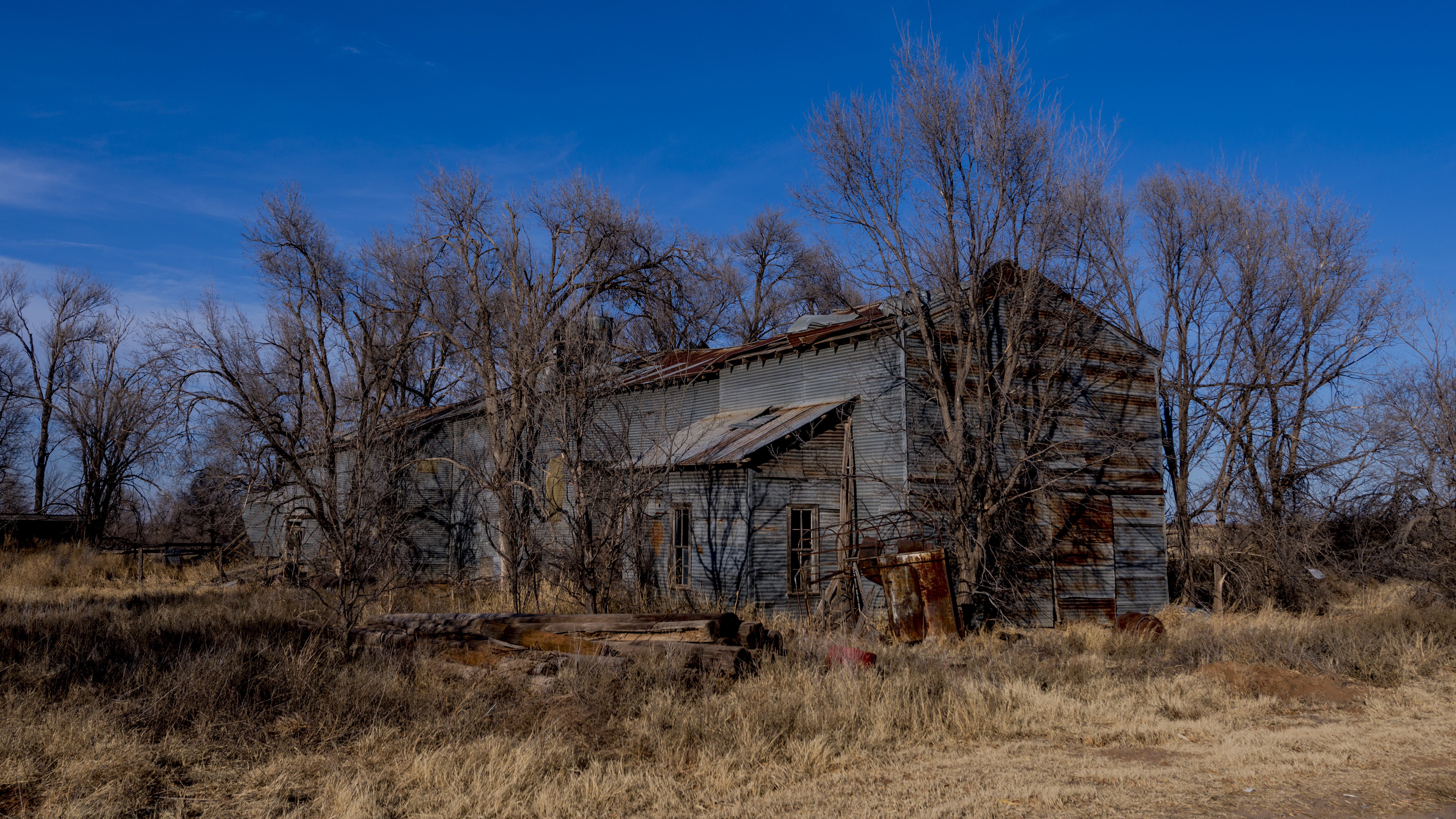 Photograph of the abandoned Dumont cotton gin